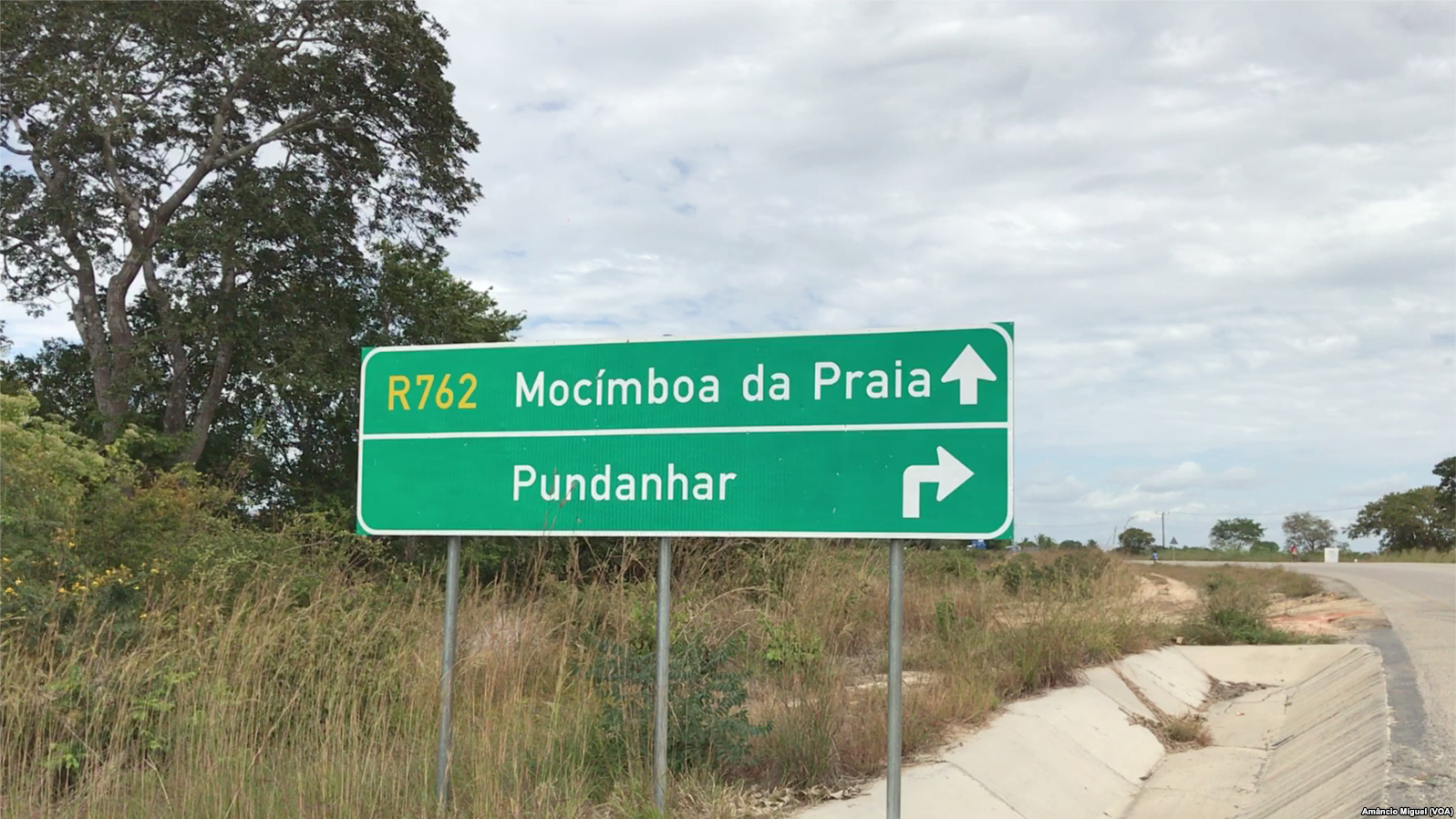 Street sign showing direction to Mocímboa da Praia on R762 in Palma, Mozambique